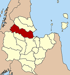 Map of the province Surat Thani, Thailand, highlighting Amphoe Tha Chang (geocode 8411).